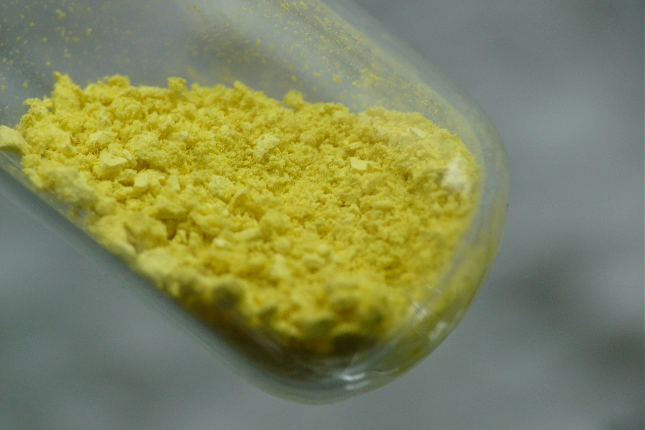 Uranylcarbonate